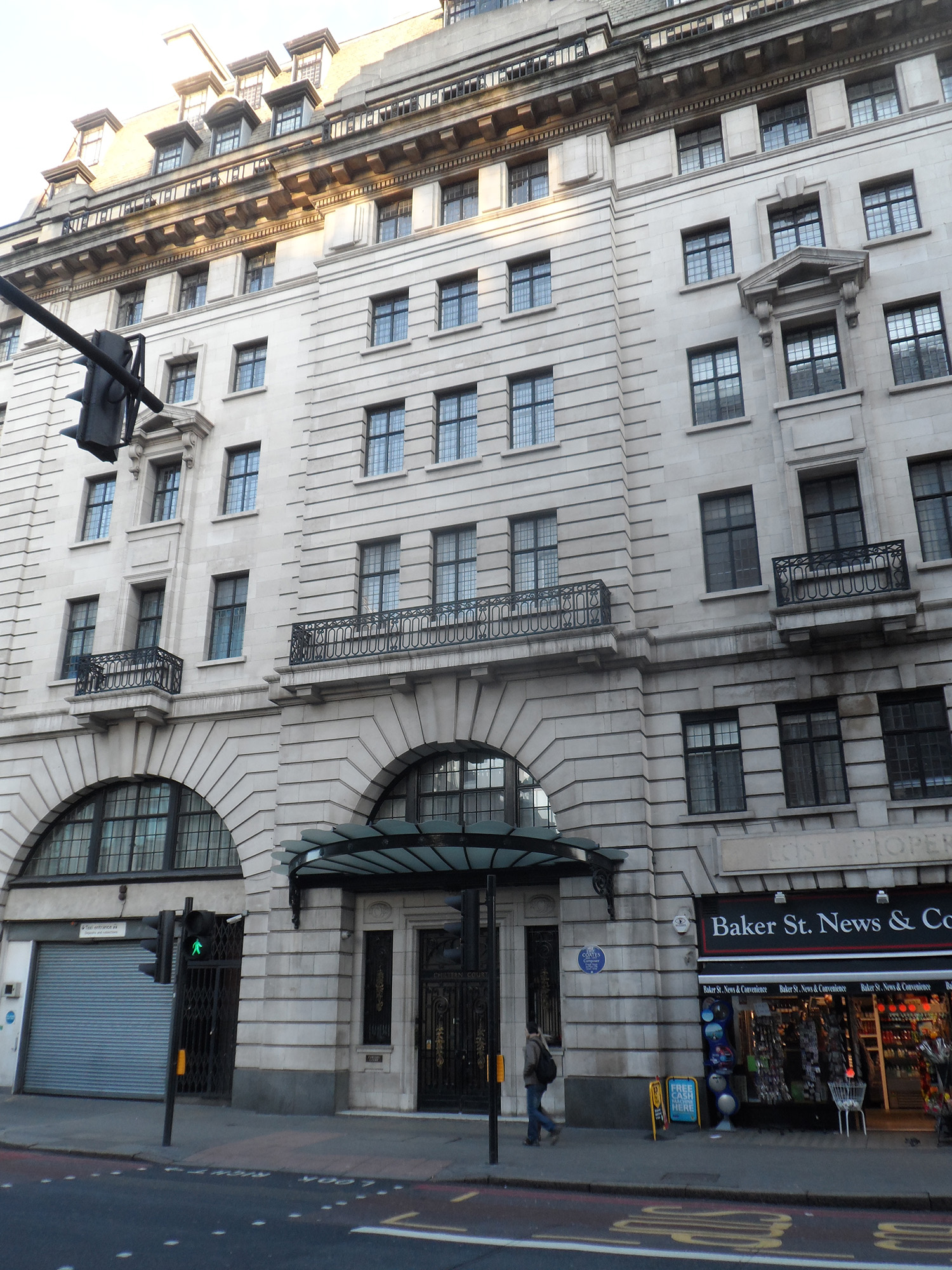 Eric Coates 1886-1957 Composer lived here in Flat 176 1930-39